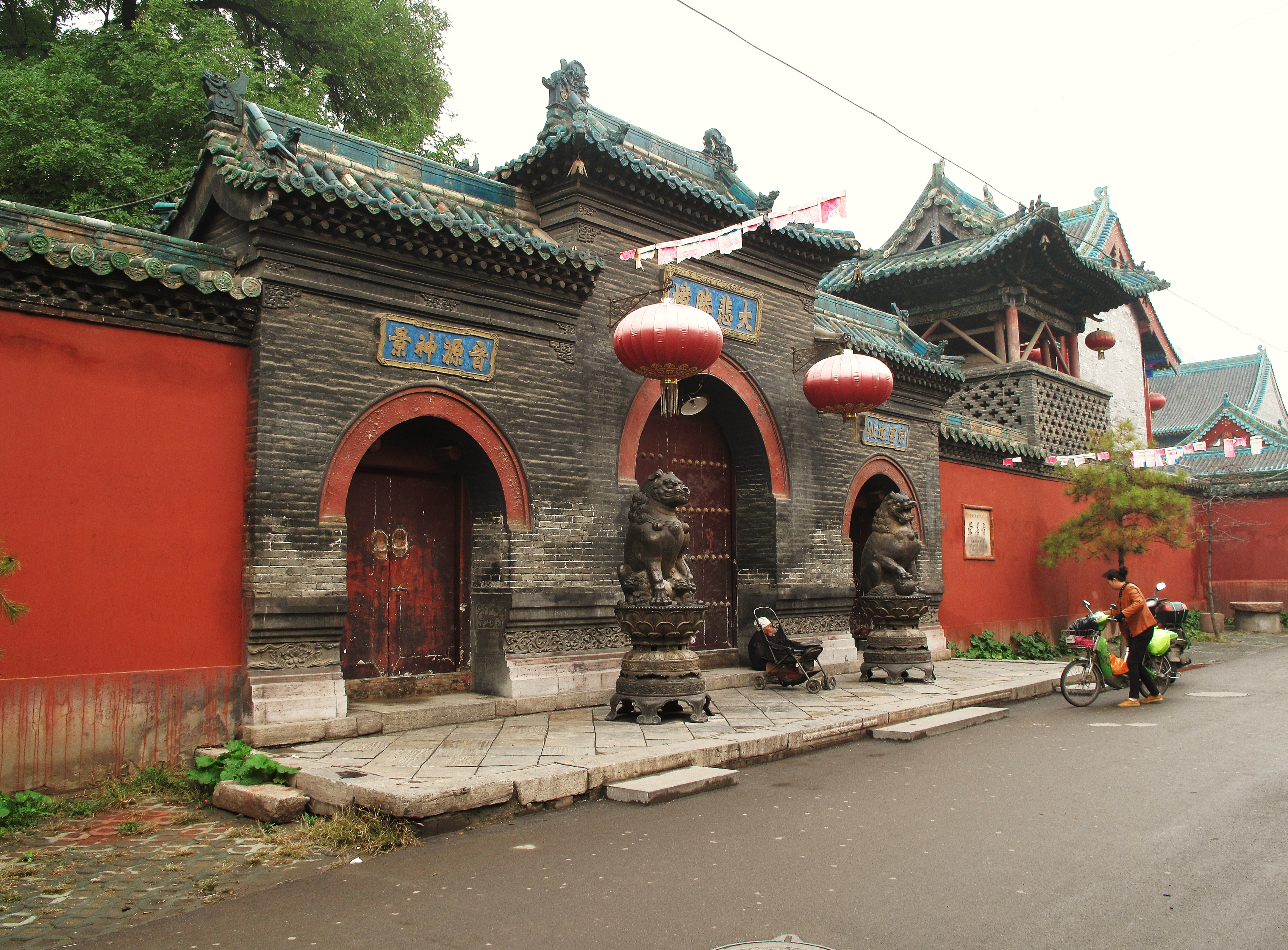 Gate of Chongshan Temple in Taiyuan